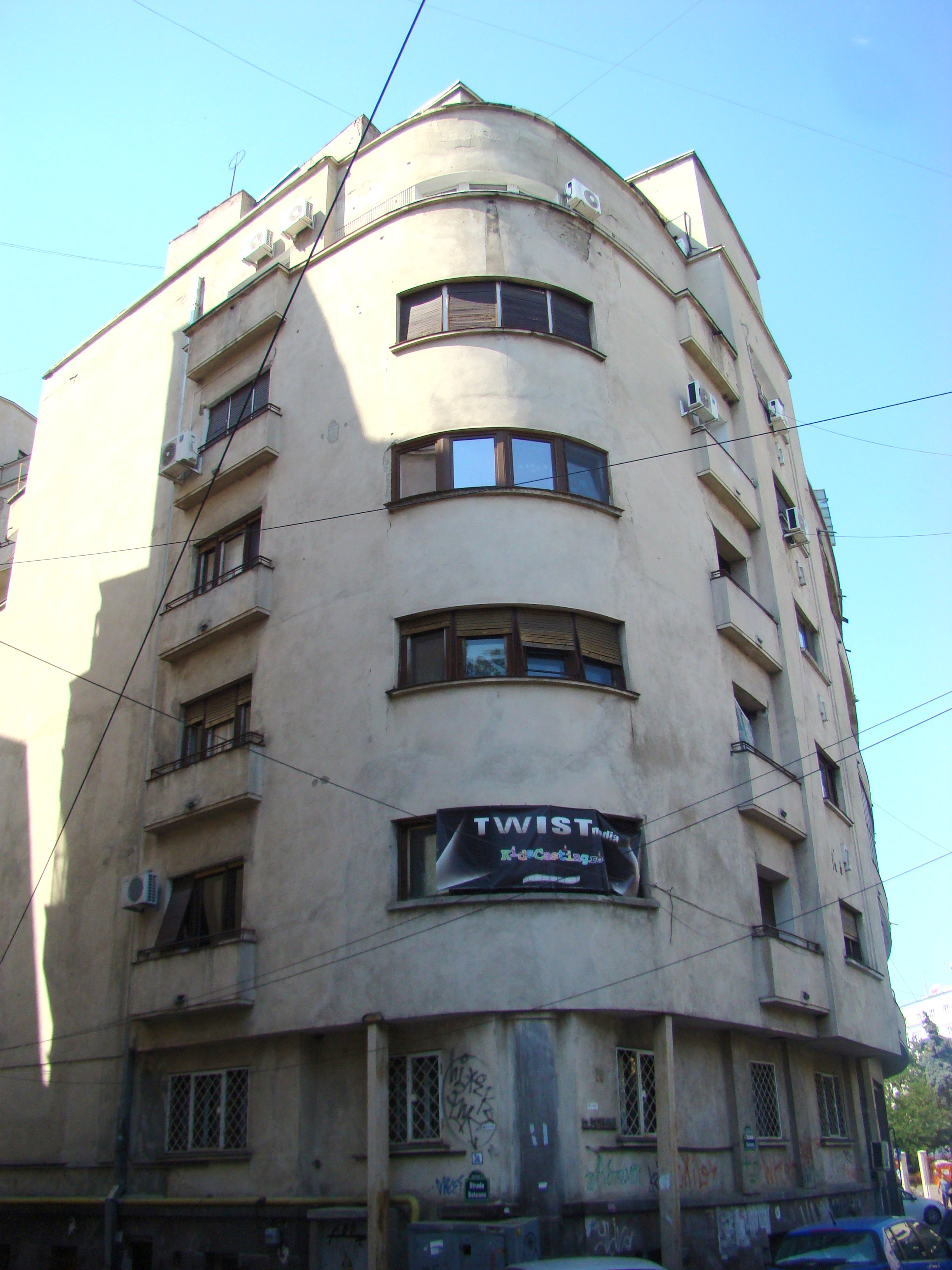 Romanian Modern movement architecture — an historical monument in Bucharest. Former headquarters of the Anglo-Romanian Society (1927-1939)